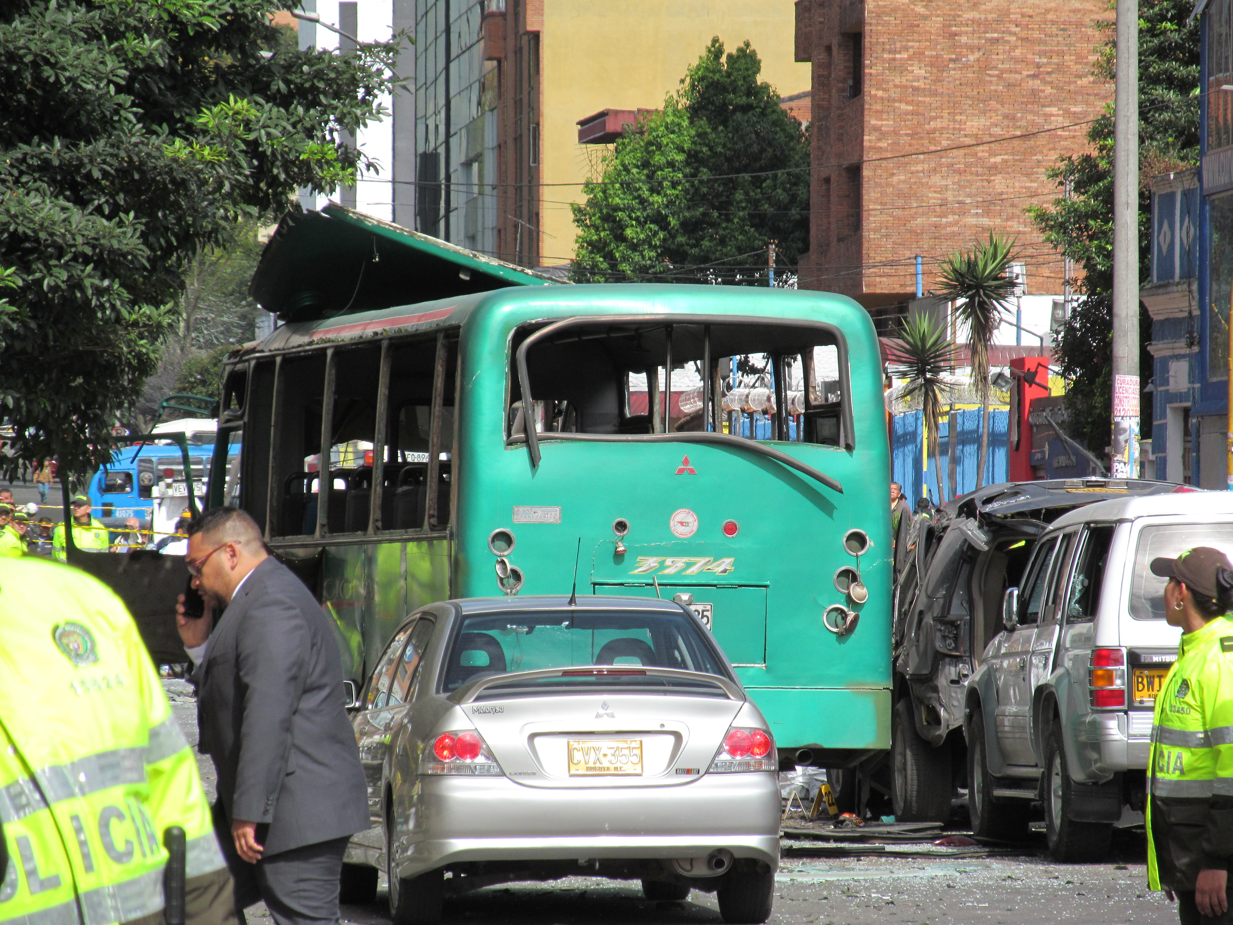 2012 Car Bombing in Bogota Colombia targeting the former minister, Fernando Londono.